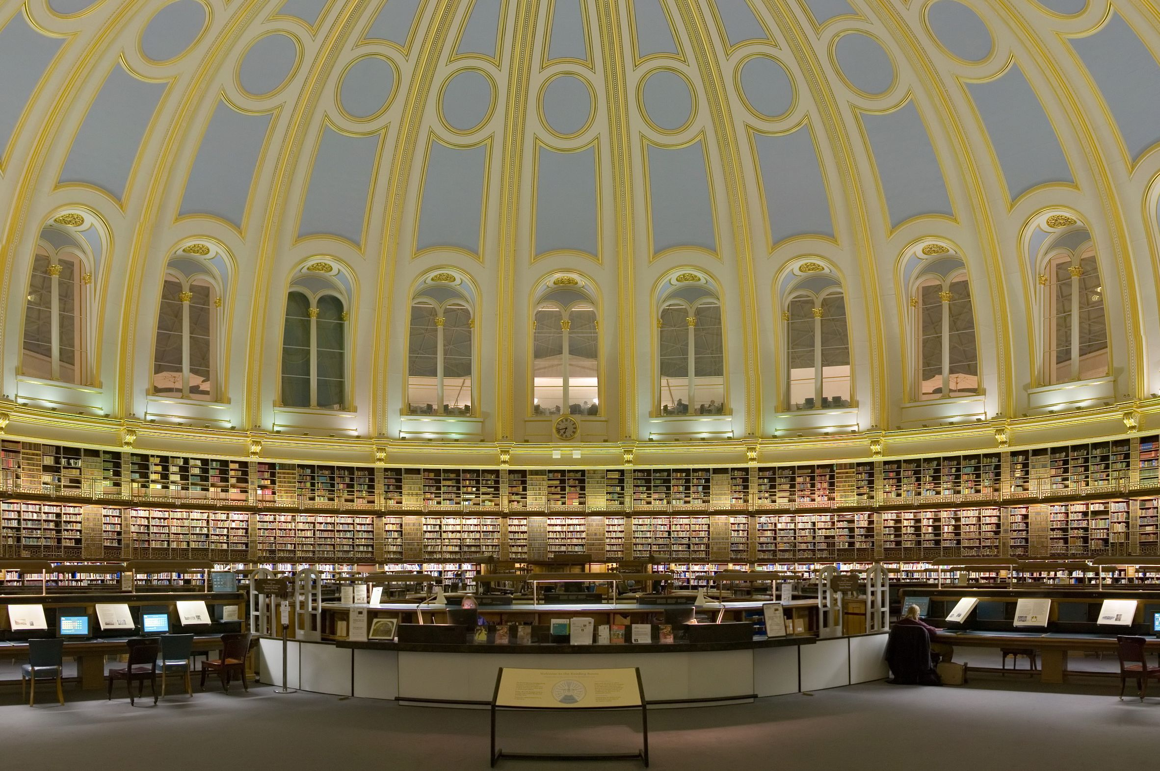 The British Museum Reading Room. Selection of original File: Image:British Museum Reading Room Panorama Feb 2006.jpg